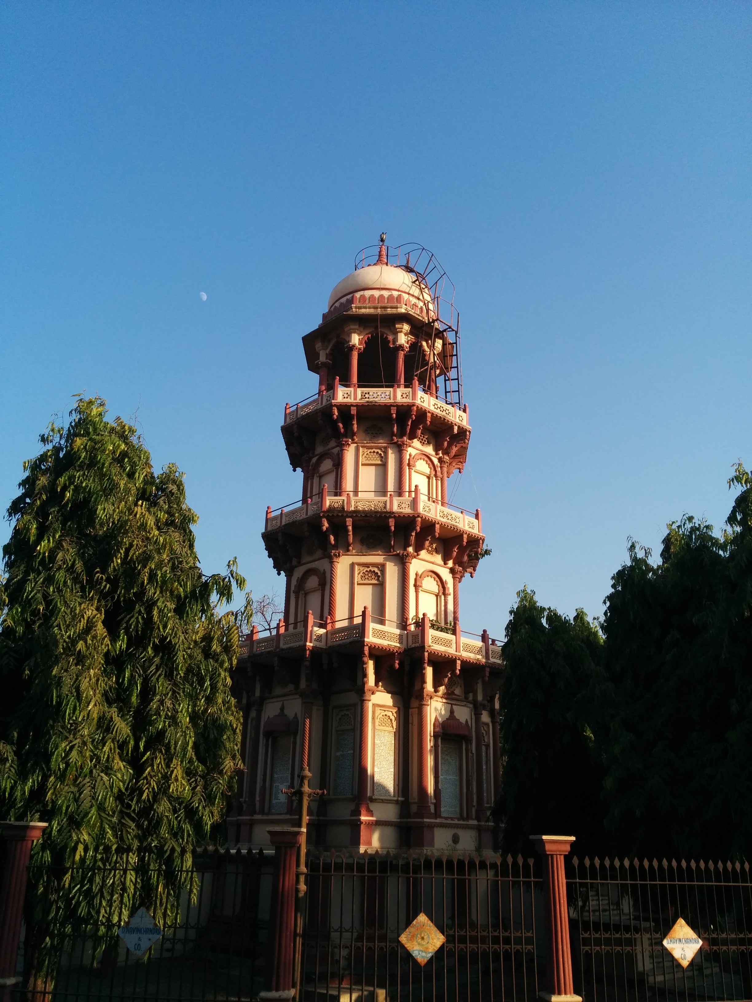 Kirti Stambh or Victory Tower in Palanpur.